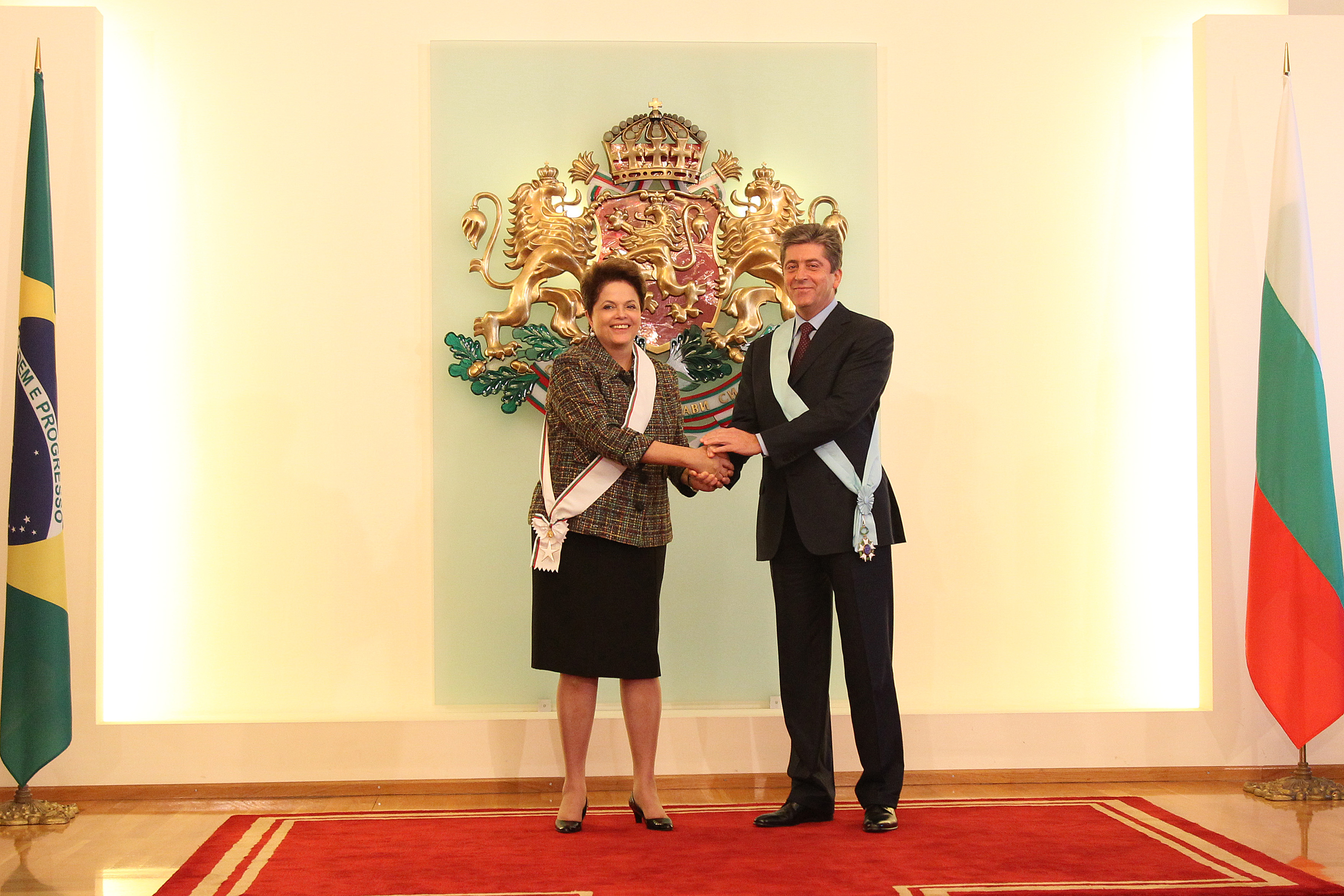 Brazilian president Dilma Rousseff with Georgi Parvanov in the presidential palace in Sofia